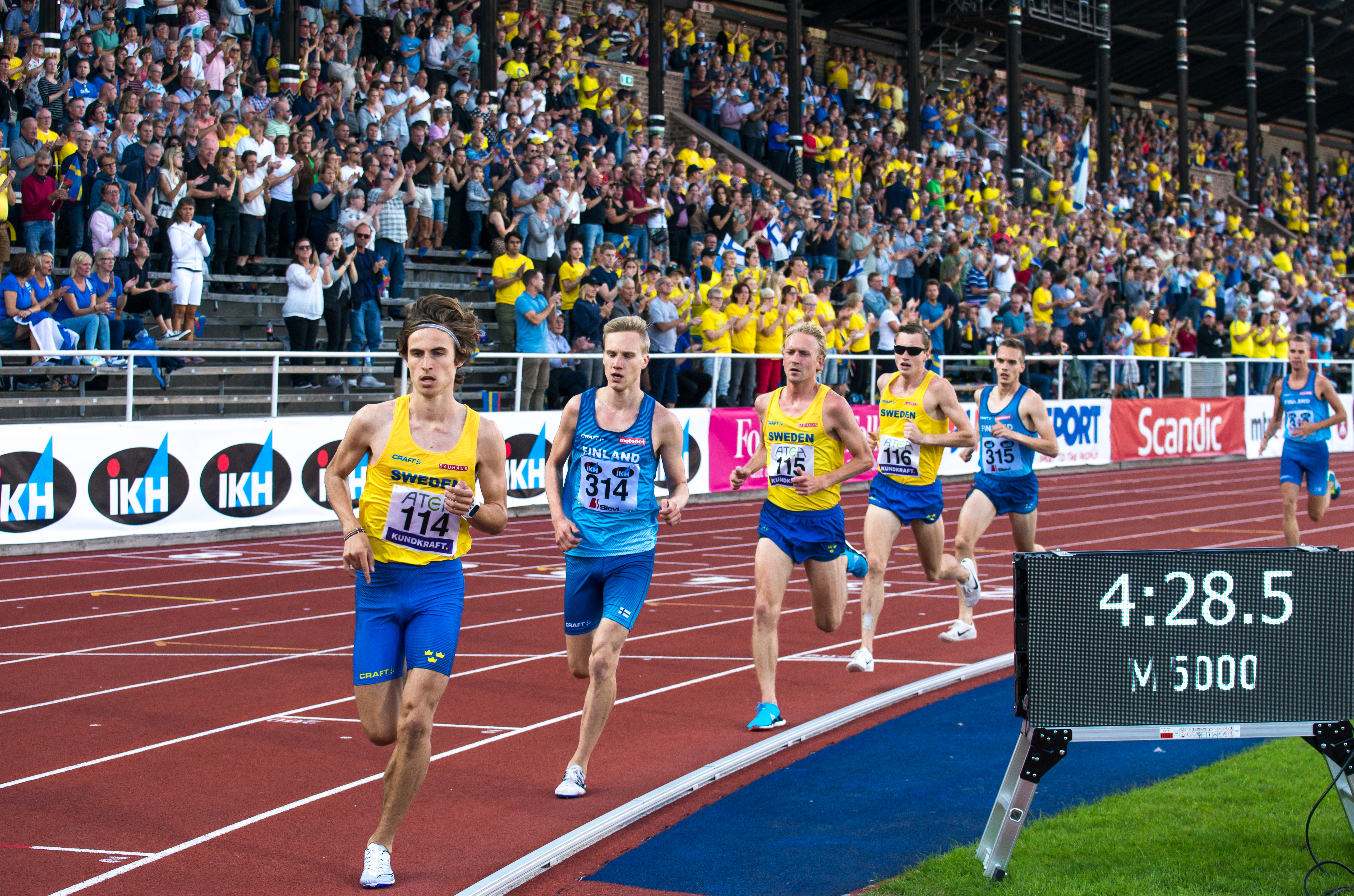 5000 metres during the Finland-Sweden athletics international 2019 at the Stockholm Stadium in August 2019. Kalle Berglund (116), David Nilsson (115), Simon Sundström (114), Miika Tenhunen (315), Hannu Granberg (314), Martti Siikaluoma (313). Berglund winner.